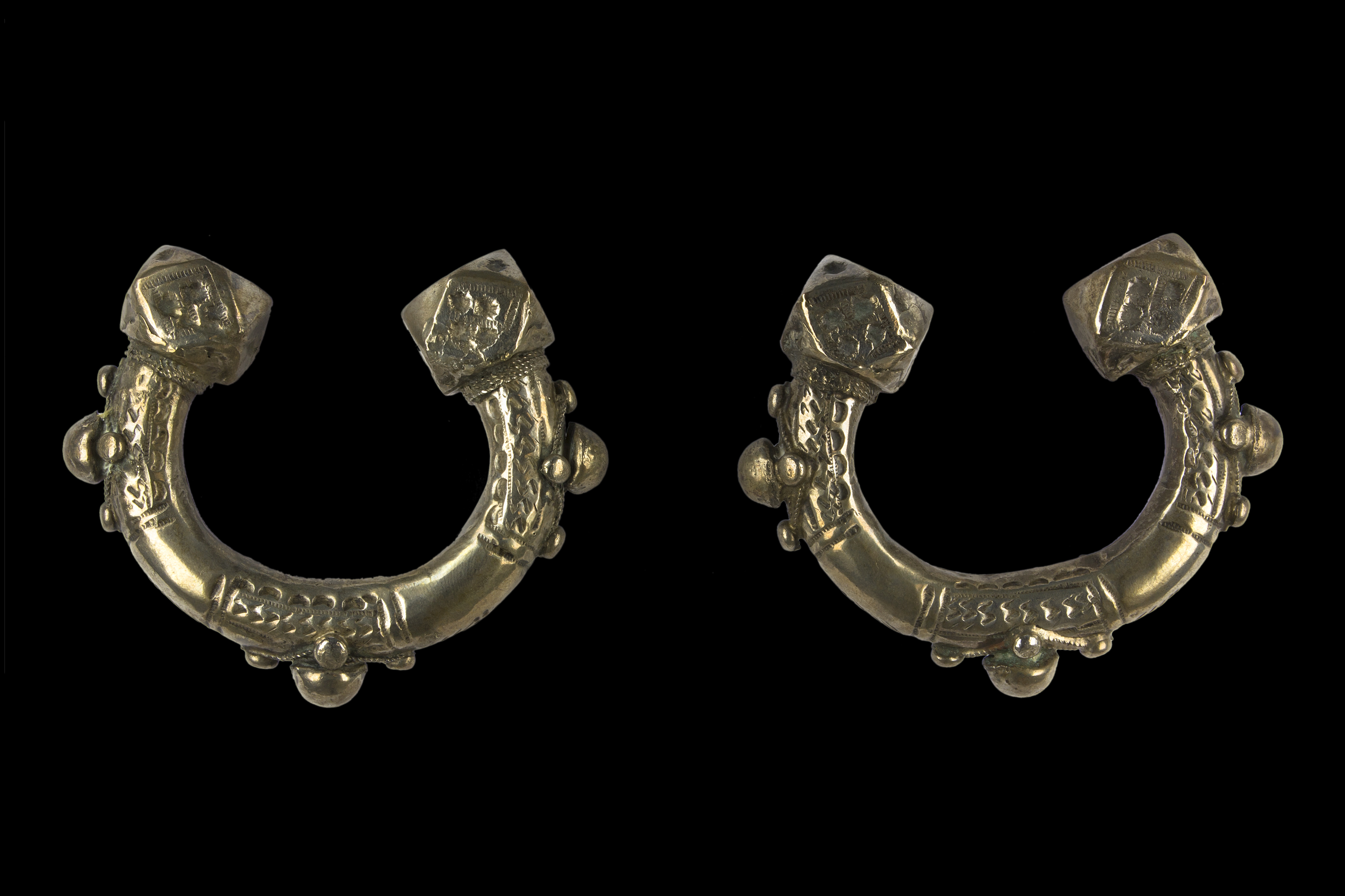 Ankle rings Population : Arabian desert Egypt. Collector and collection: Combes, Séverine Date of collection: 20th century date QS:P,+1950-00-00T00:00:00Z/7 Materials: silver Size : 3,0 x 10,5 x 8,5 cm